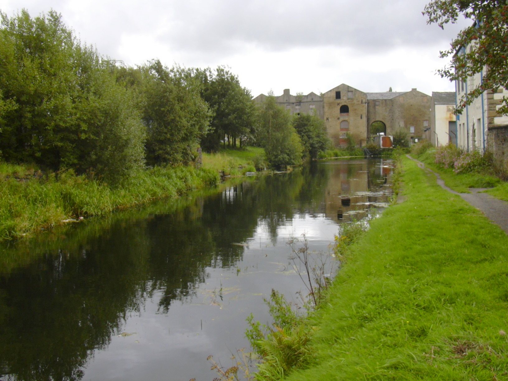 The Leeds and Liverpool Canal at Church near Accrington, with Church warehouse in the distance